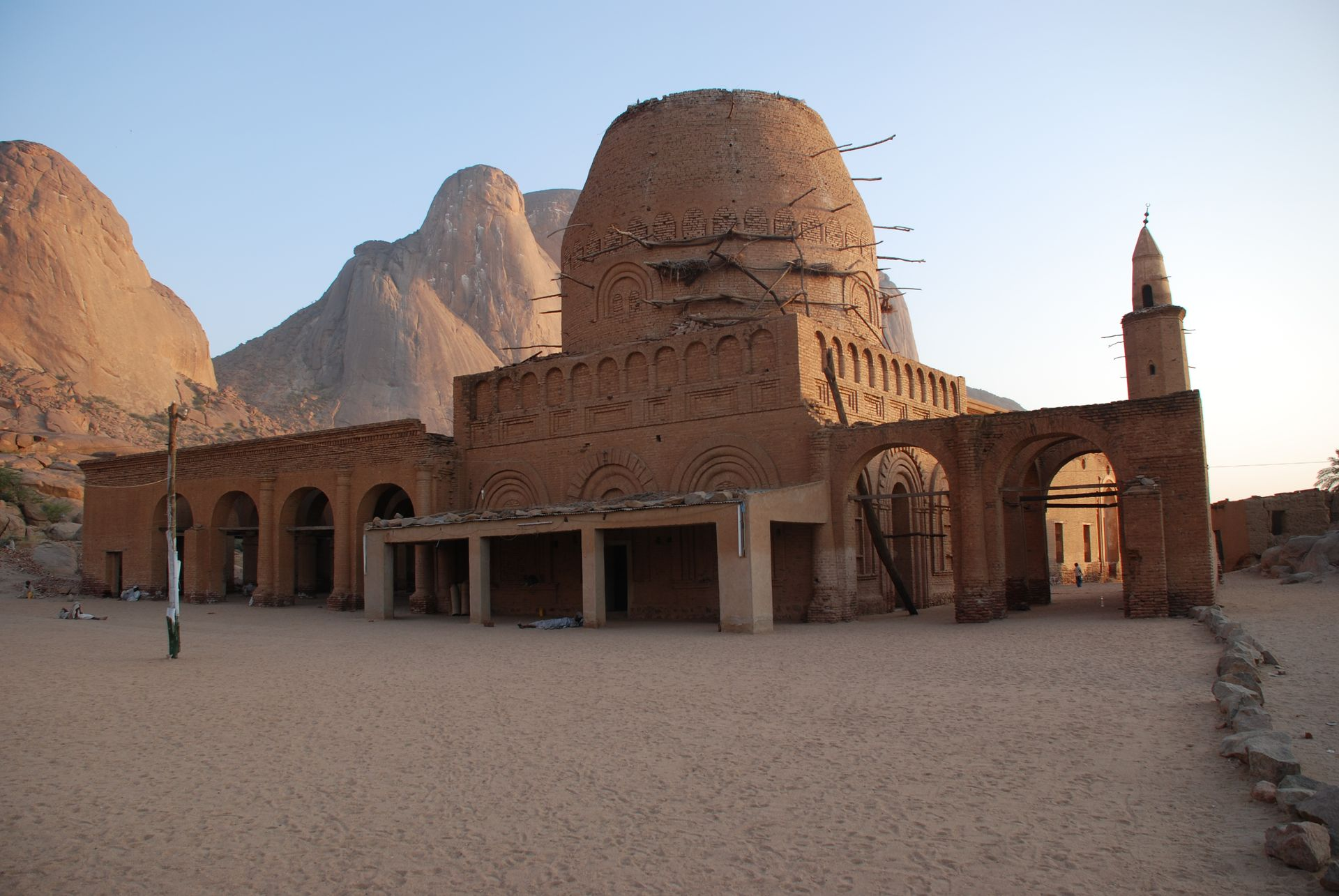 Tomb of al-Hasan al-Mirghani, Khatmiyya tariqa, Kassala, Sudan. Granite domes of the Taka Mountains behind.